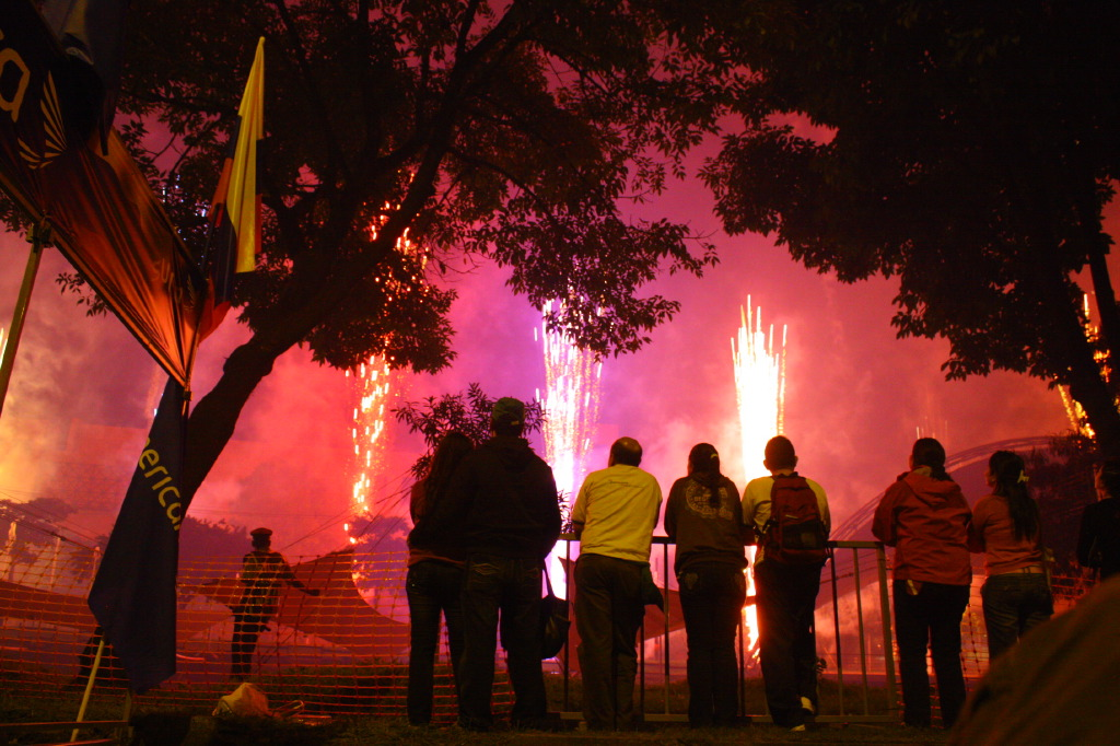 Fireworks in Medellín, as part of Colombia Bicentennial, at night of July 20th, 2010.